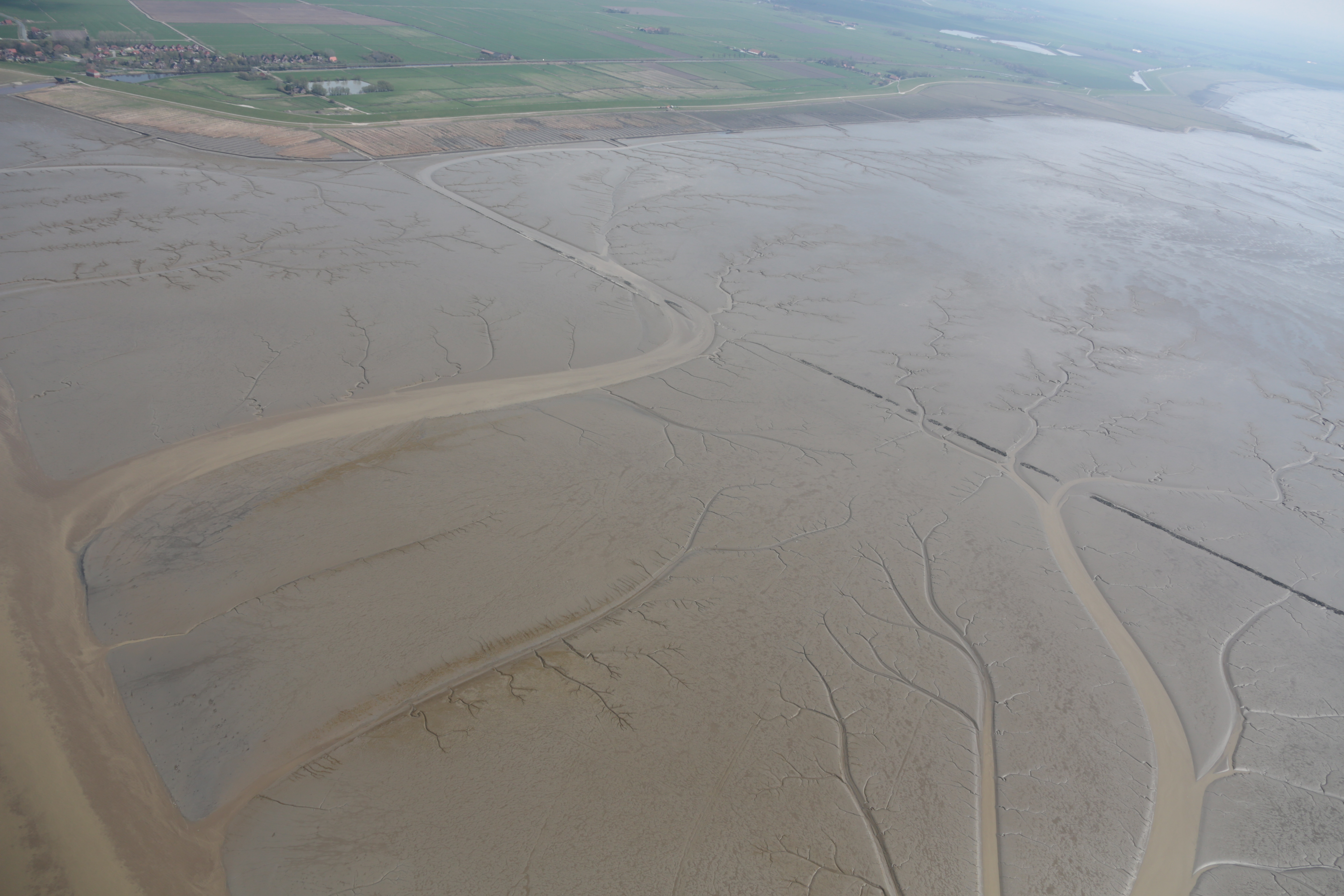 Fotoflug von Nordholz-Spieka nach Oldenburg und Papenburg This photo was taken by Alchemist-hp. If you use one of my photos, an email (account needed) or a message or direct to: my email account would be greatly appreciated. Please note the license terms. Other licensing terms can get discussed, too. This file is copyrighted and has been released under a license which is incompatible with Facebook's licensing terms. It is not permitted to upload this file to Facebook.